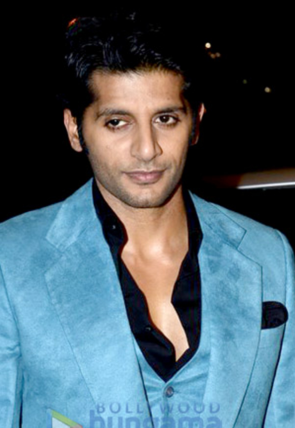 Karanvir Bohra at Nikitin Dheer's wedding reception